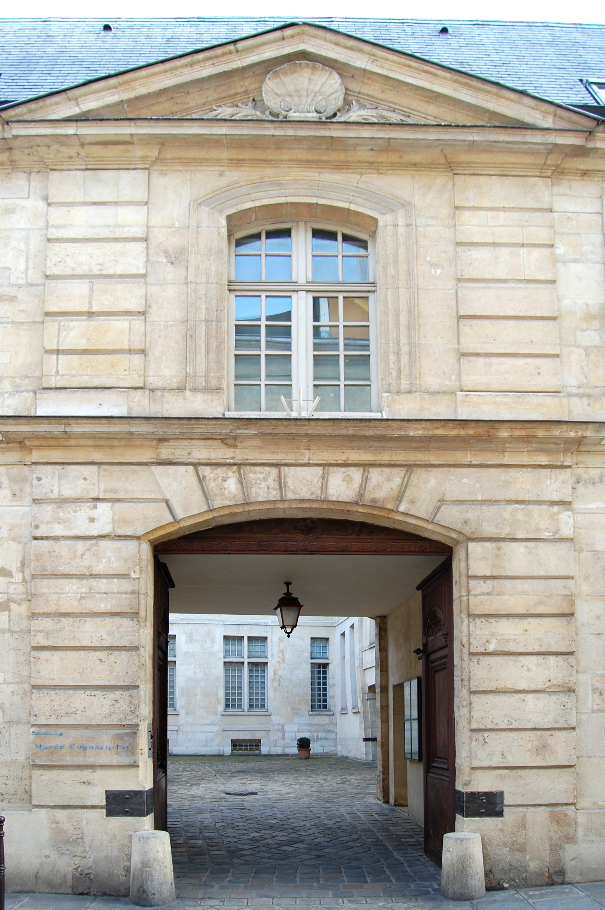 Hotel Donon, Musée Cognacq Jay, 8 rue Elzévir, Le Marais, Paris, France